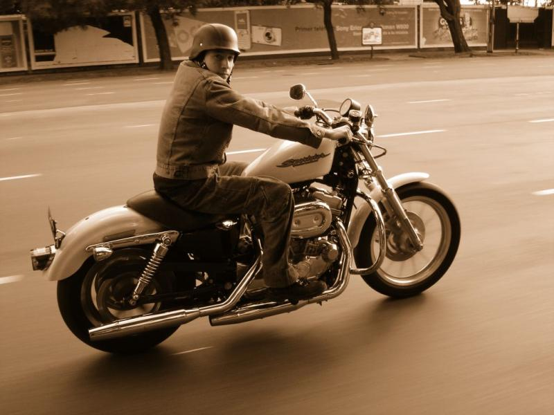 This is myself, riding a Harley Davidson Sportster XL 883 year 2004, factory color White Pearl.